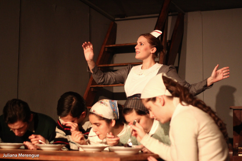 Comida Alemana Theatre, in the Festival Internacional de Teatro de São José do Rio Preto of 2010, in São José do Rio Preto, São Paulo, Brazil.